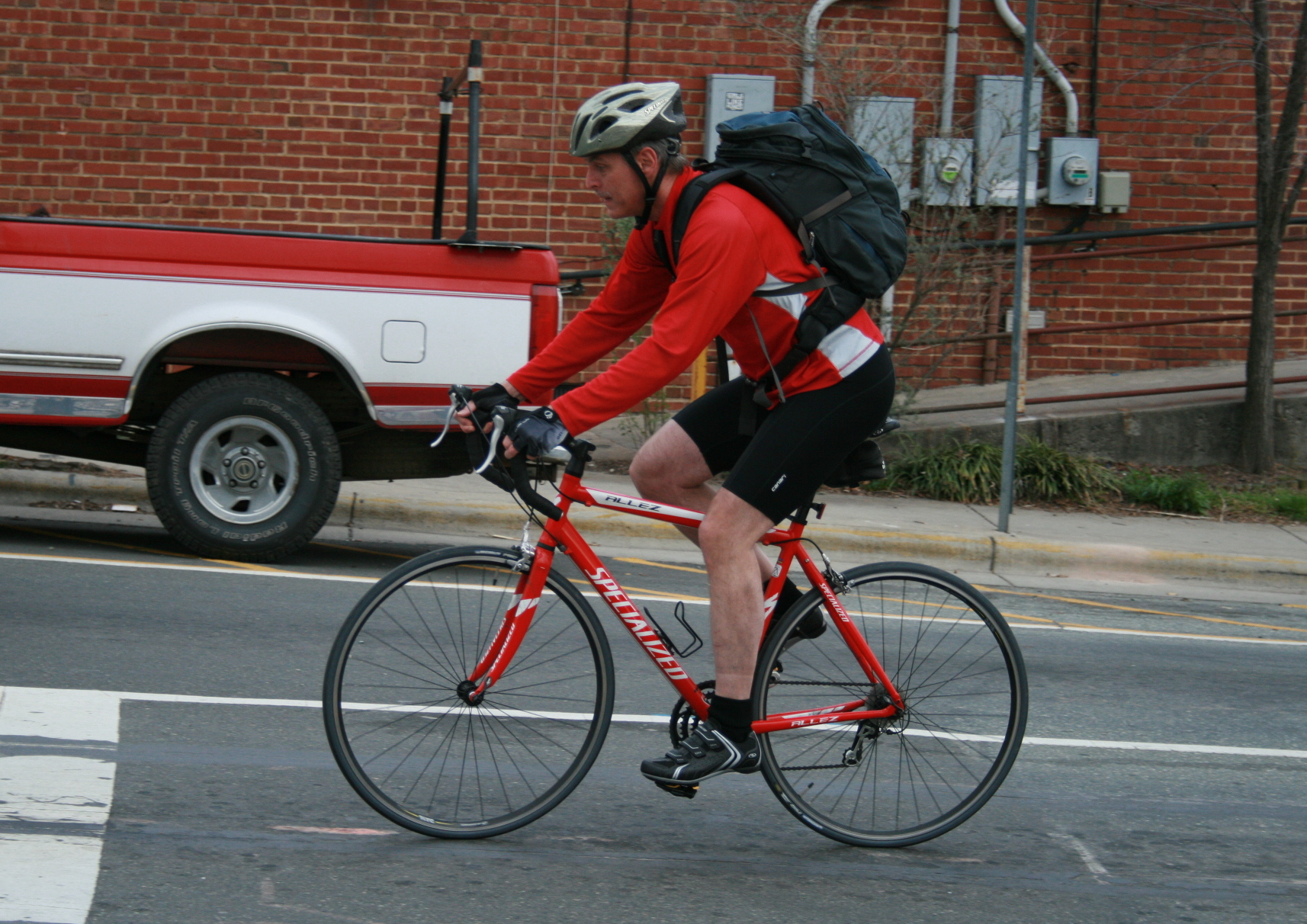 A cyclist on S Greensboro Street in Carrboro, North Carolina (USA).